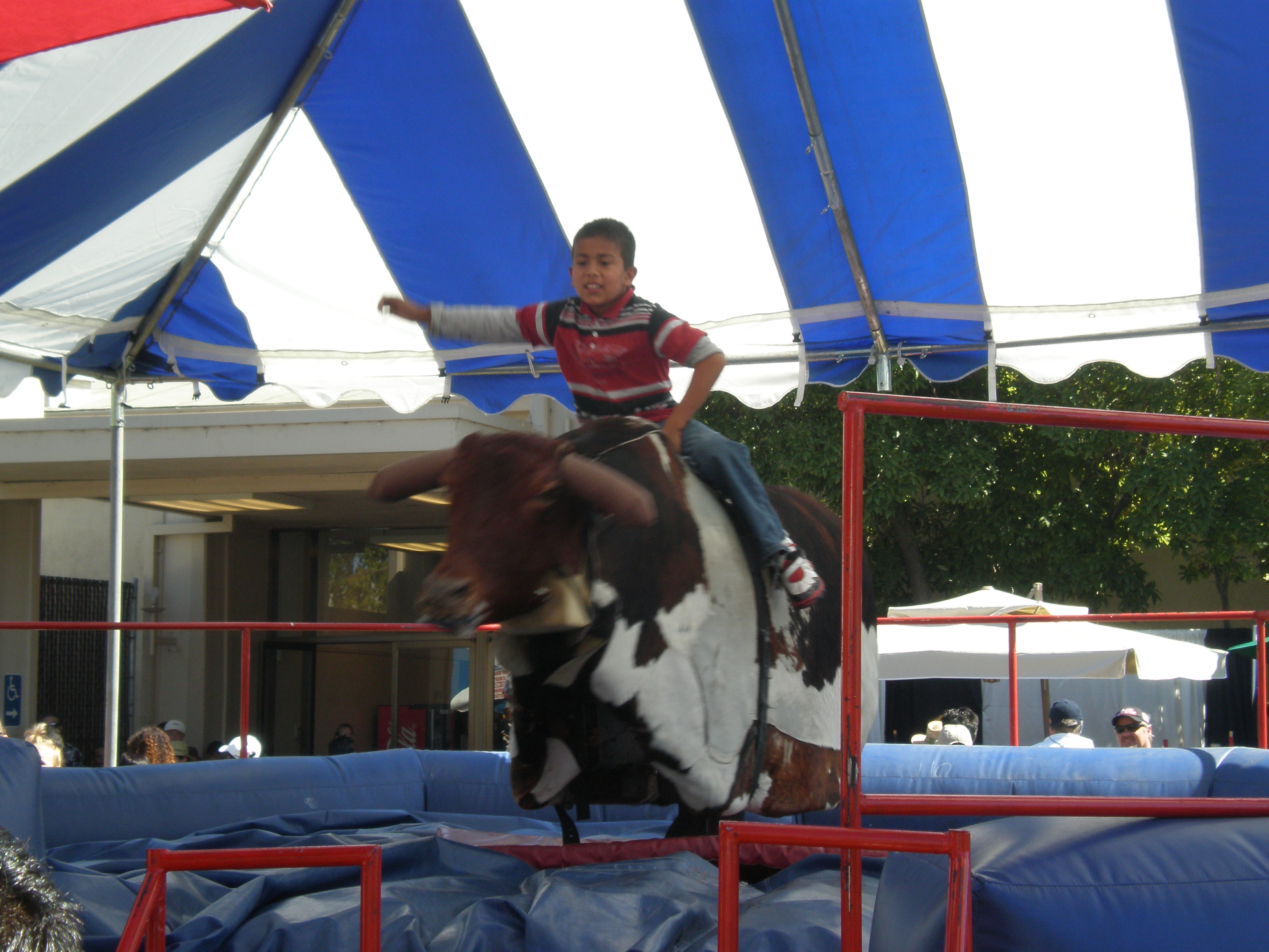 A mechanical bull at the 2008 San Mateo County Fair.